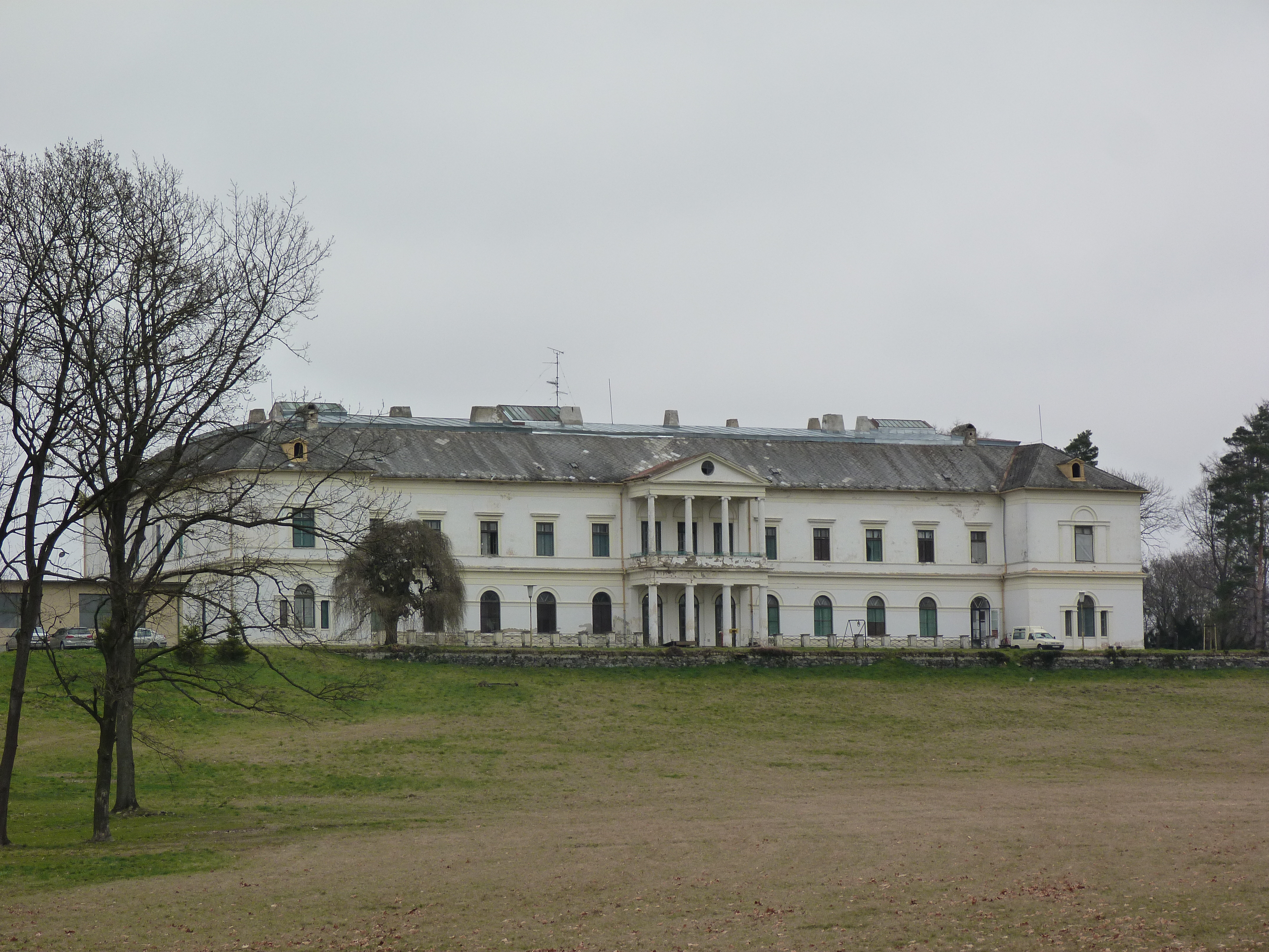 Erdődy Mansion. Doba, Somlóvár. Hungary. Taken on Monday, the 7th of March, 2016. Charles Moreau (1758/1760 - 1840 ?): Hungarian wikipedia